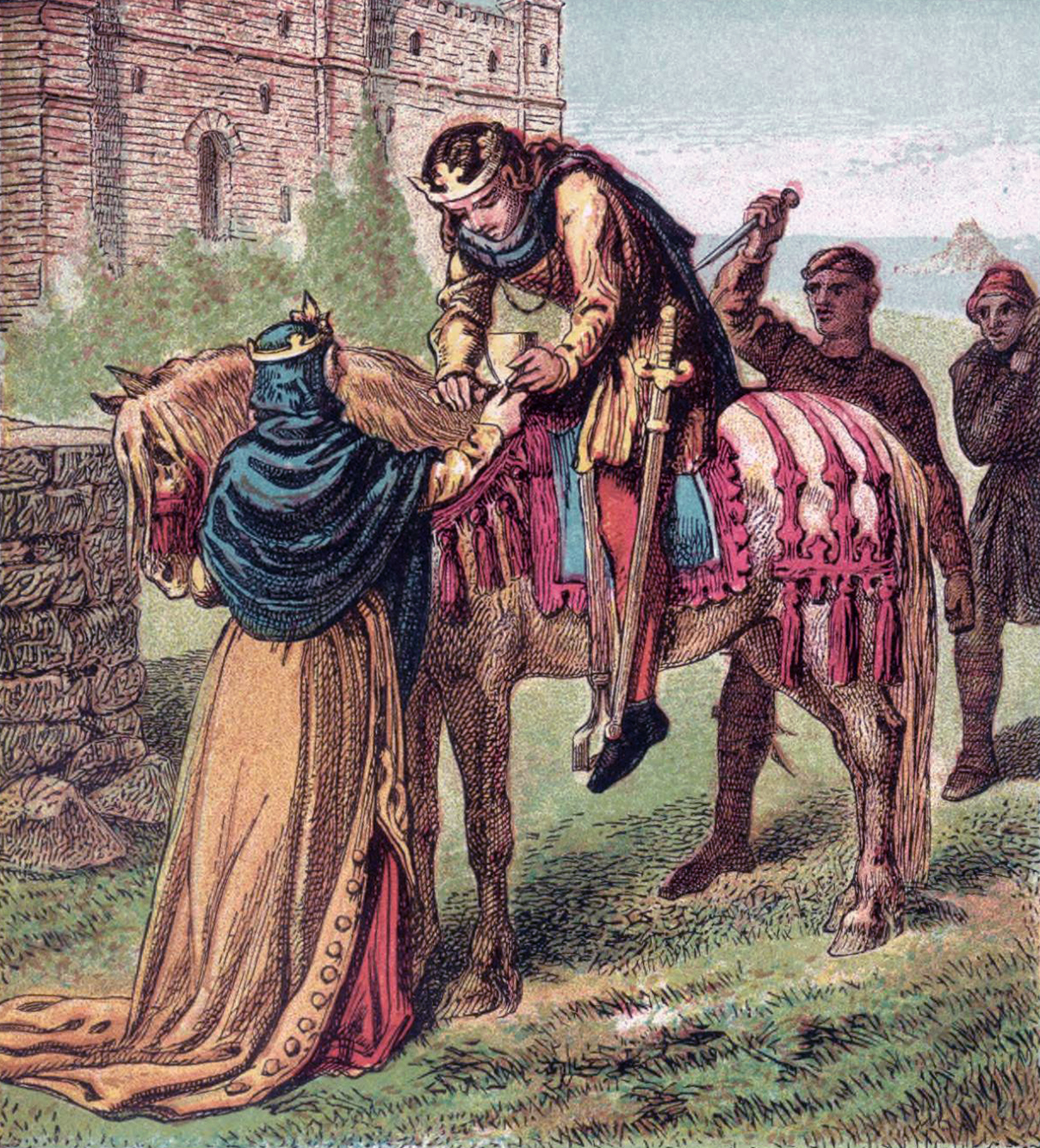 Ælfthryth, wife of Edgar, puts her plan of murdering Edward the Martyr into motion